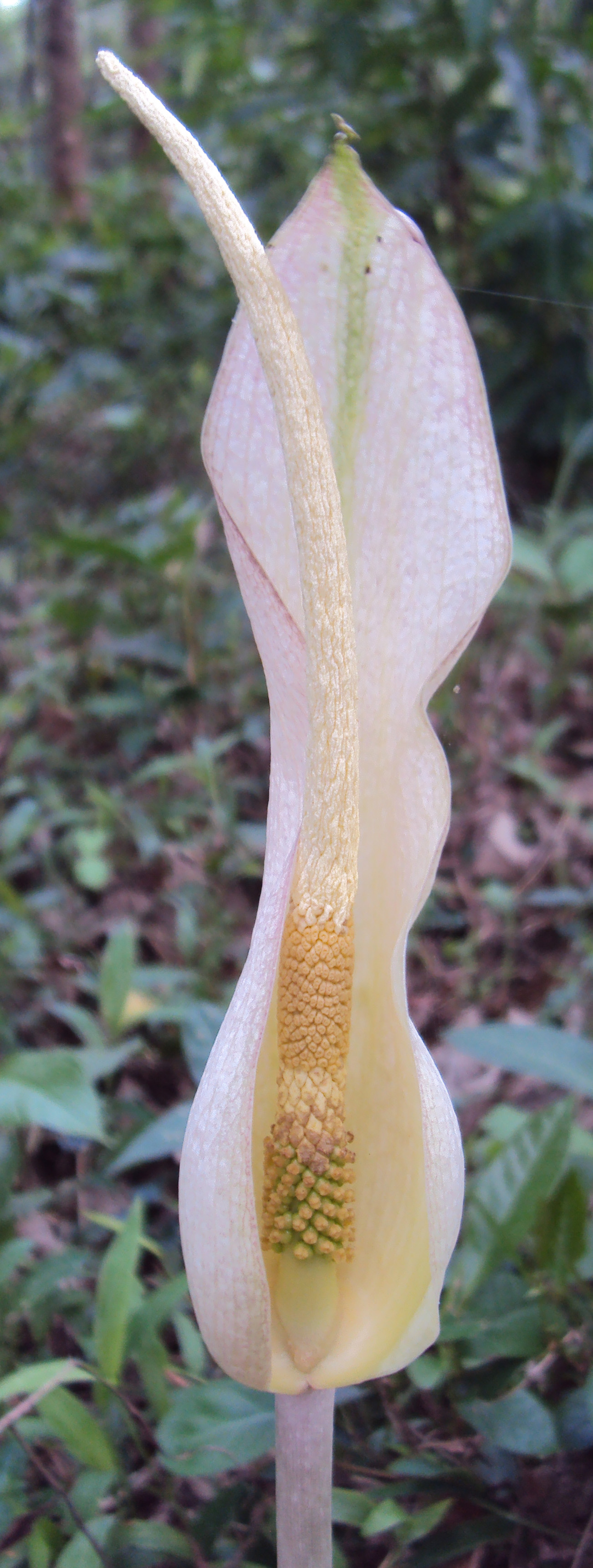 Amorphophallus commutatus